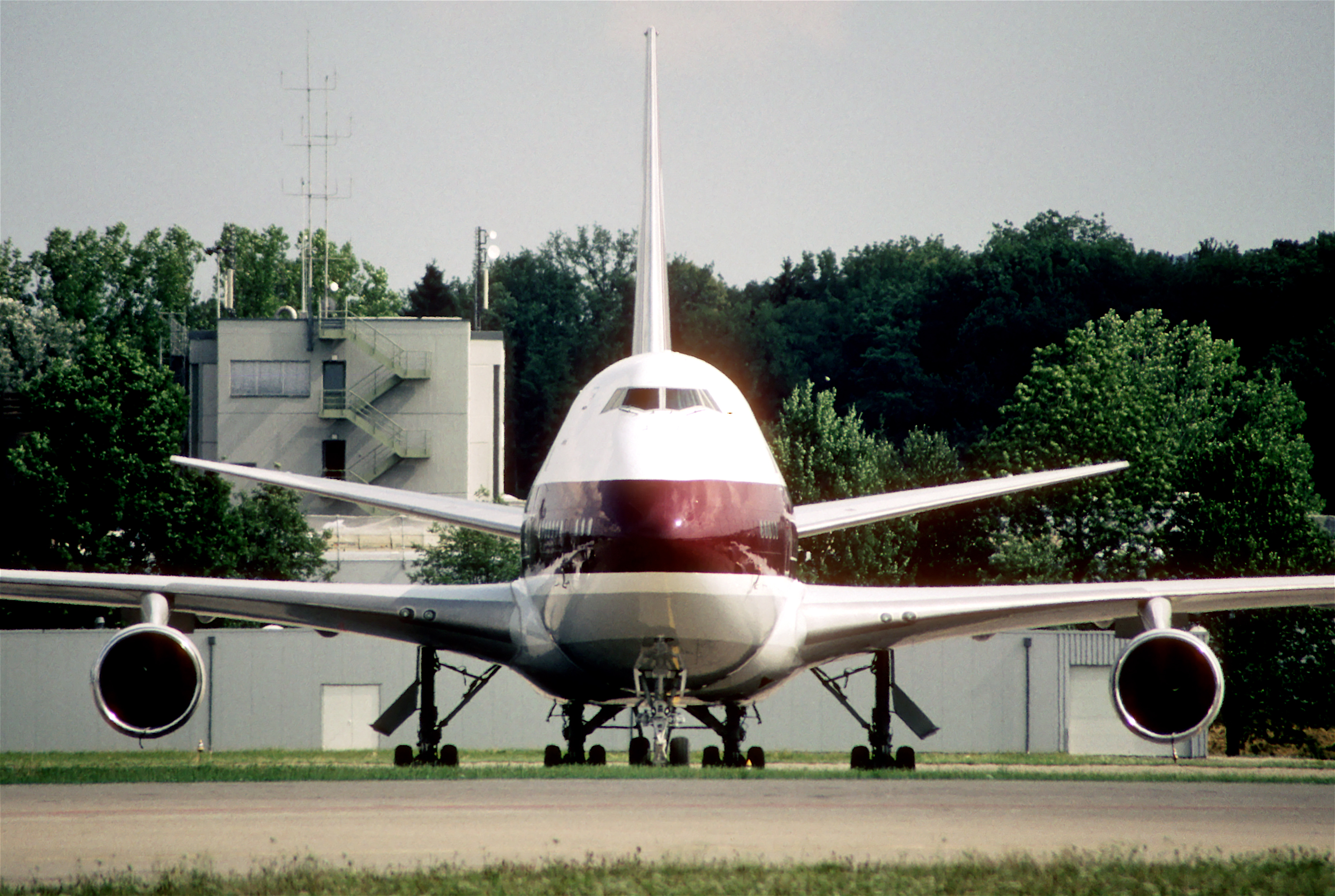 414bs - Untitled Boeing 747SP-21; VP-BAT@ZRH;13.07.2006